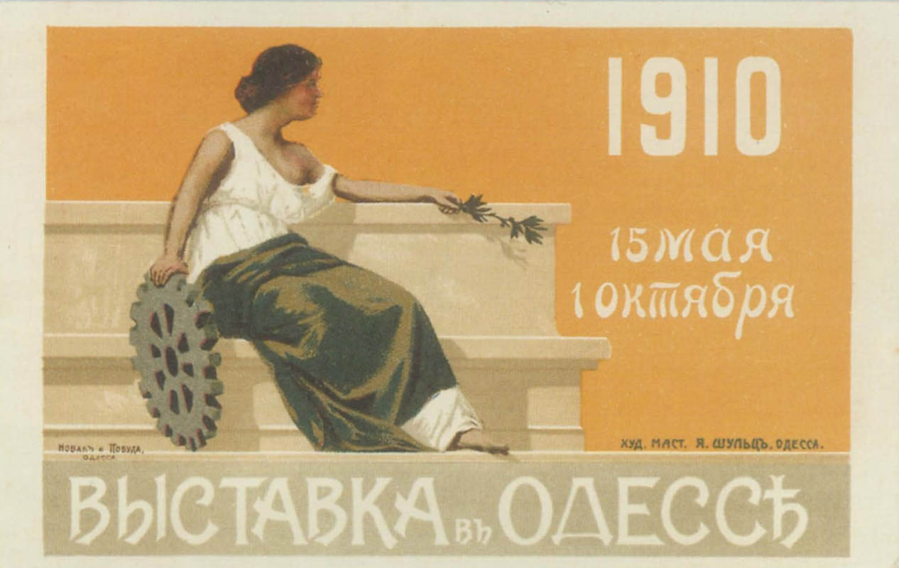 Old Carte Postale (Open Letter) issued in 1910 and dedicated to Odessa Exposition of 1910